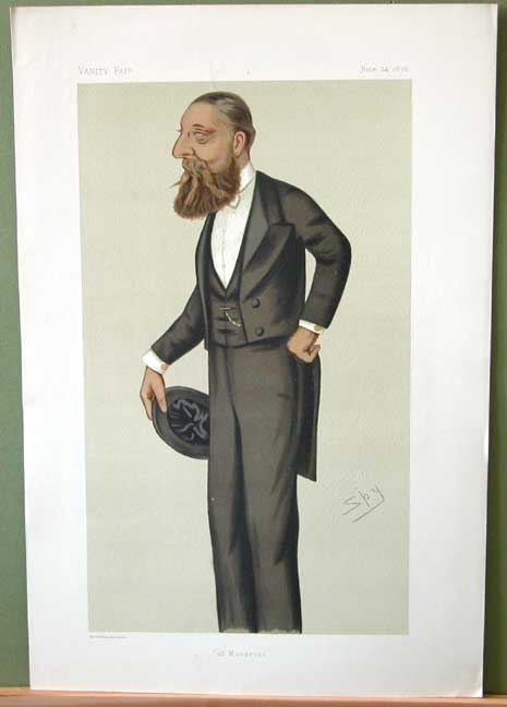 Statesmen No.227: Caricature of Mr HA Herbert MP. Caption reads: "of Muckross"